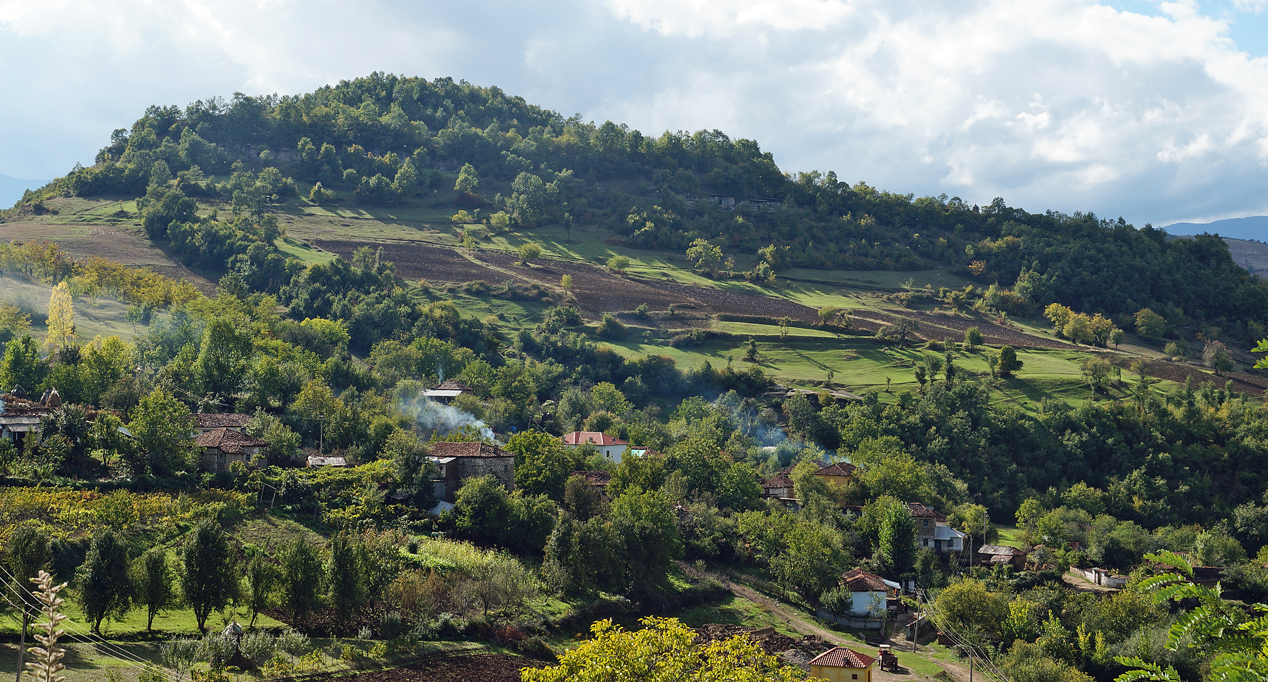 Selca e Poshtmë, Albania: the village and the hill with the tombs